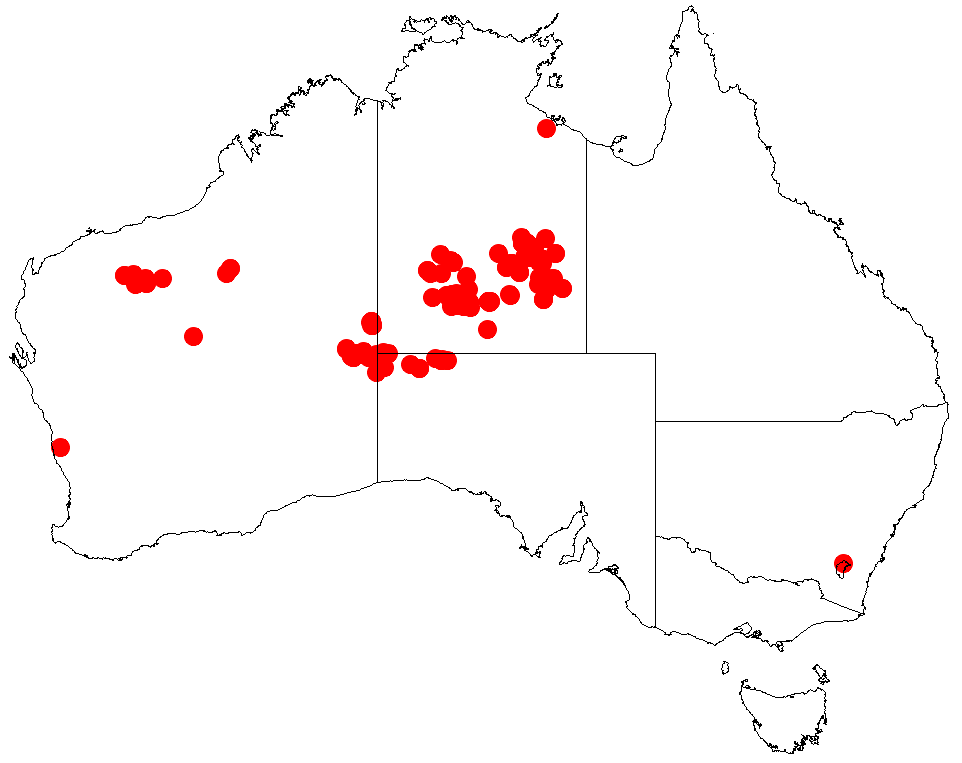 Acacia validinervia occurrence data from Australasia Virtual Herbarium downloaded from on 8 December 2018